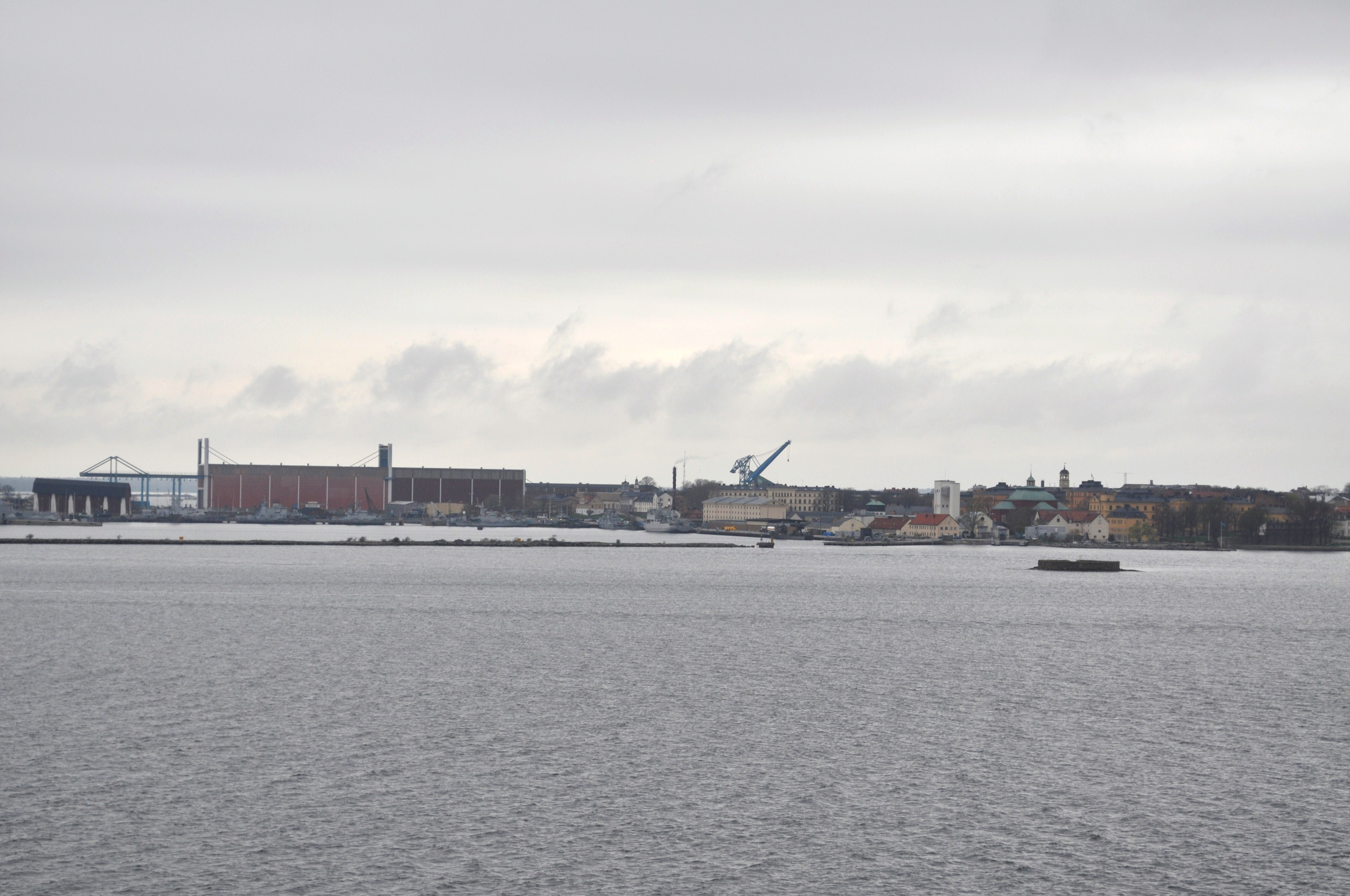 Naval Port of Karlskrona - Marinbasen i Karlskrona